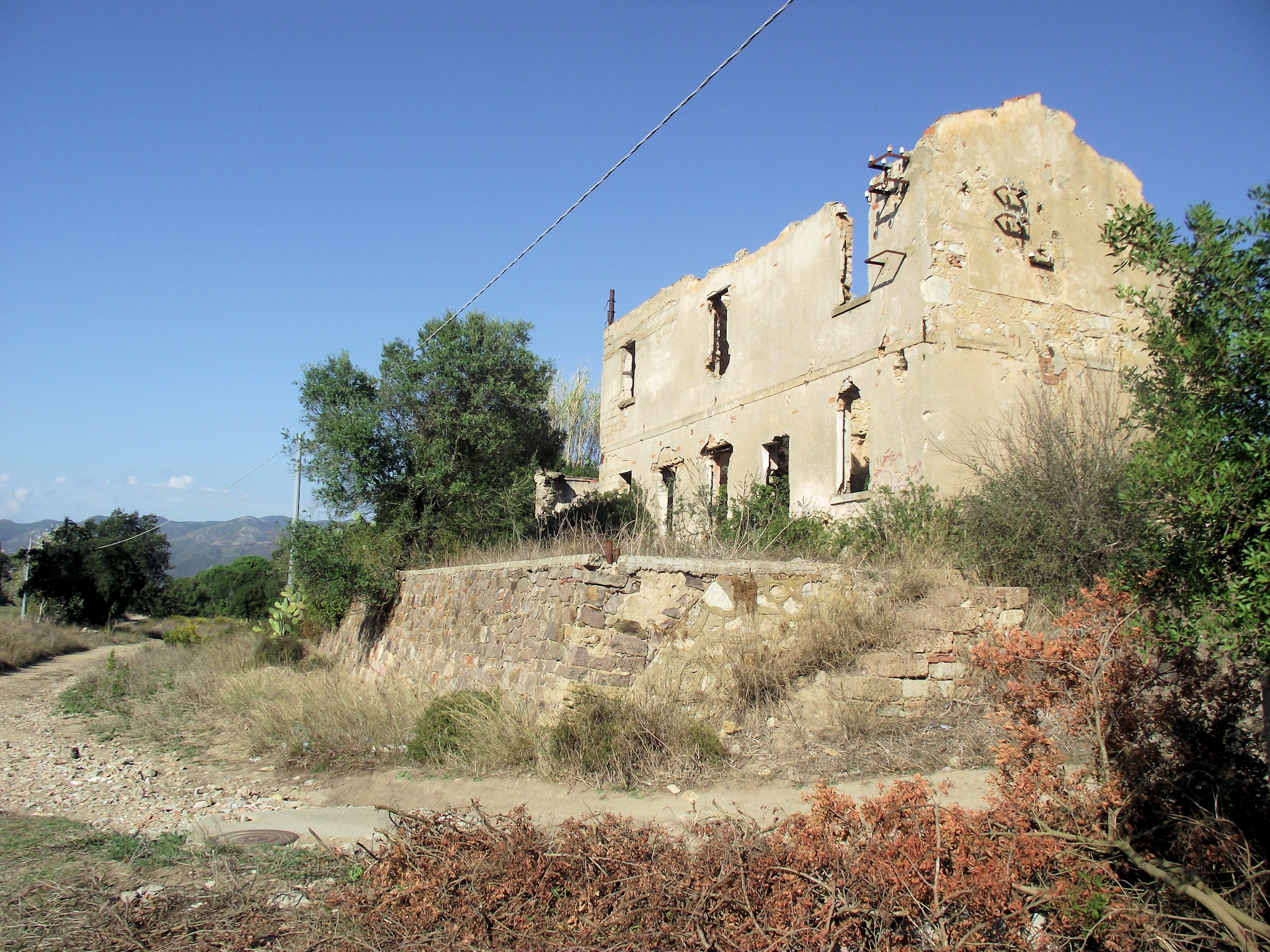 The former railway station of Bacu Abis, in the suburbs of the homonymous hamlet in Carbonia municipality, Sardinia Italy. In front of the building there were the tracks of two different railways: the San Giovanni Suergiu-Iglesias of FMS and Monteponi-Portovesme of the Monteponi mining company. The station closed in 1974 when the FMS rail network was discarded.